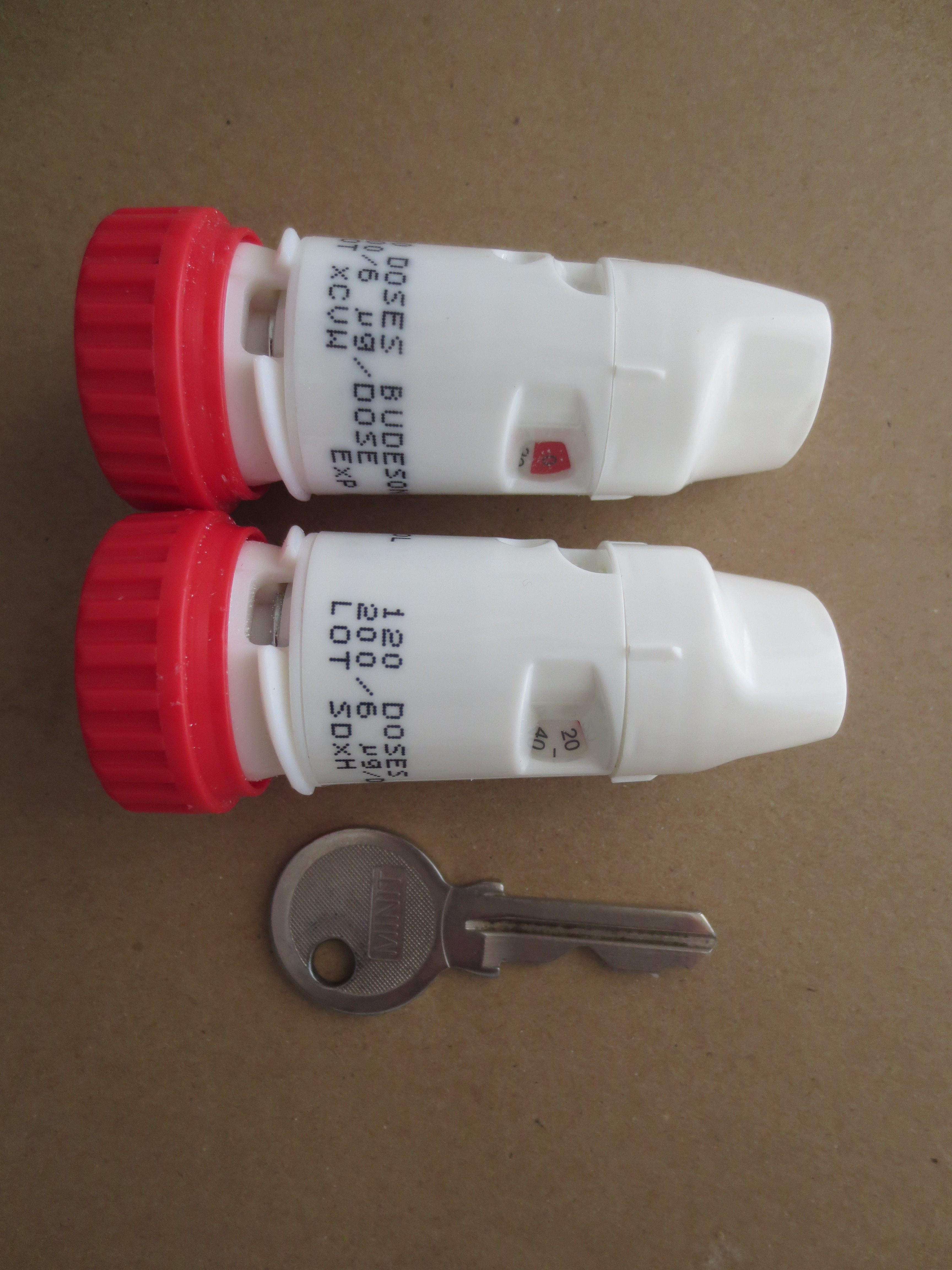 inhalers showing no. of doses